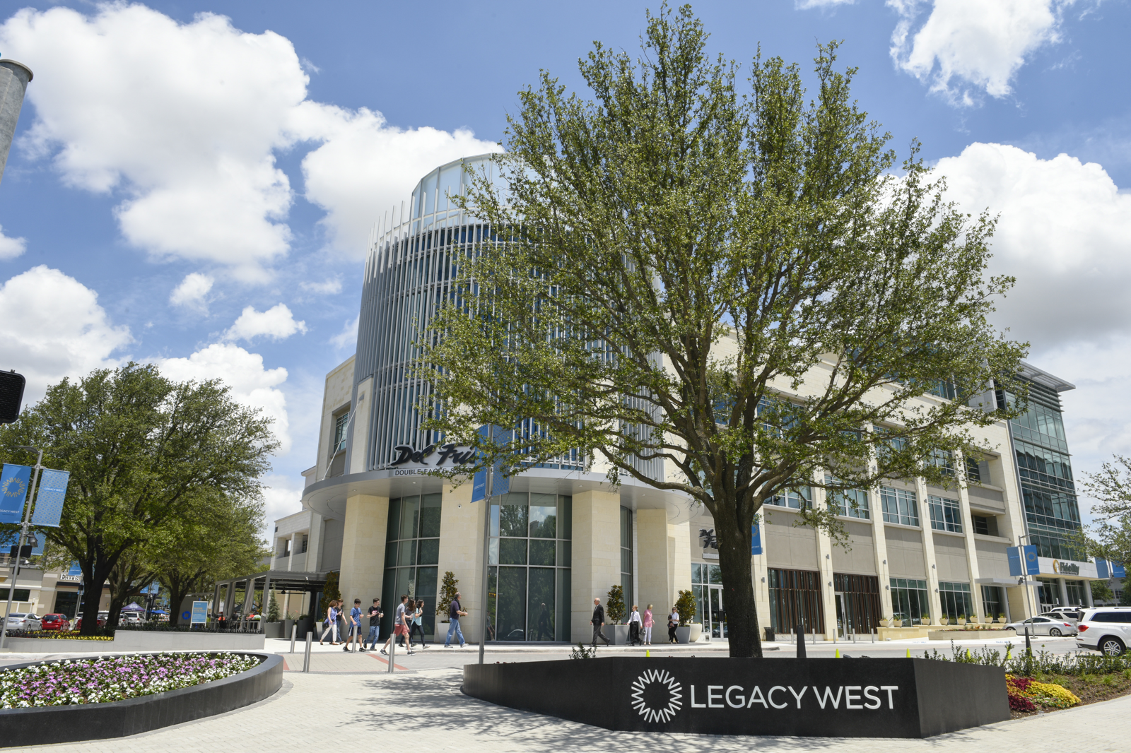 A 2017 photo of Legacy West in Plano, Texas, at the entry to Windrose Avenue.